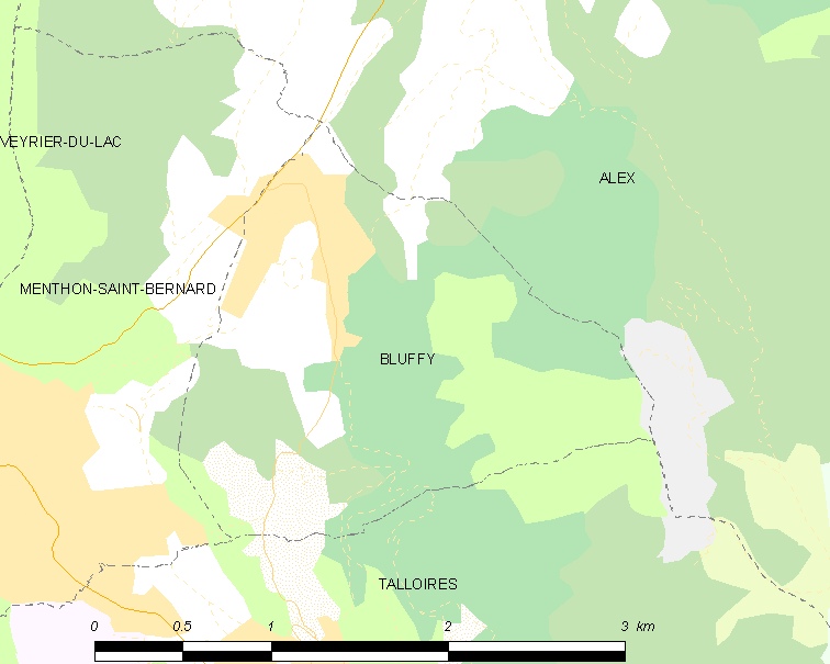 Map of French municipality Bluffy